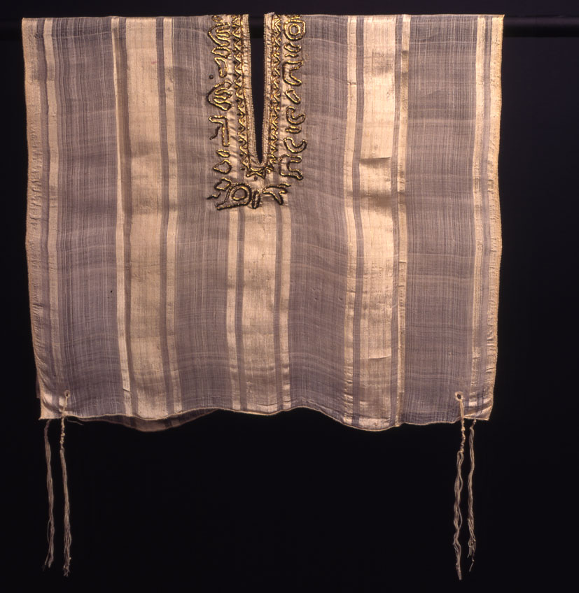 Description: Tallit katan, Gallipoli Date: early 19th century Persistent URL: Repository: Yeshiva University Museum, 15 West 16th Street, New York, NY 10011 Call Number: 1977.157 Rights Information: No known copyright restrictions; may be subject to third party rights. For more copyright information, click here. See more information about this image and others at CJH Digital Collections. Digital images created by the Gruss Lipper Digital Laboratory at the Center for Jewish History